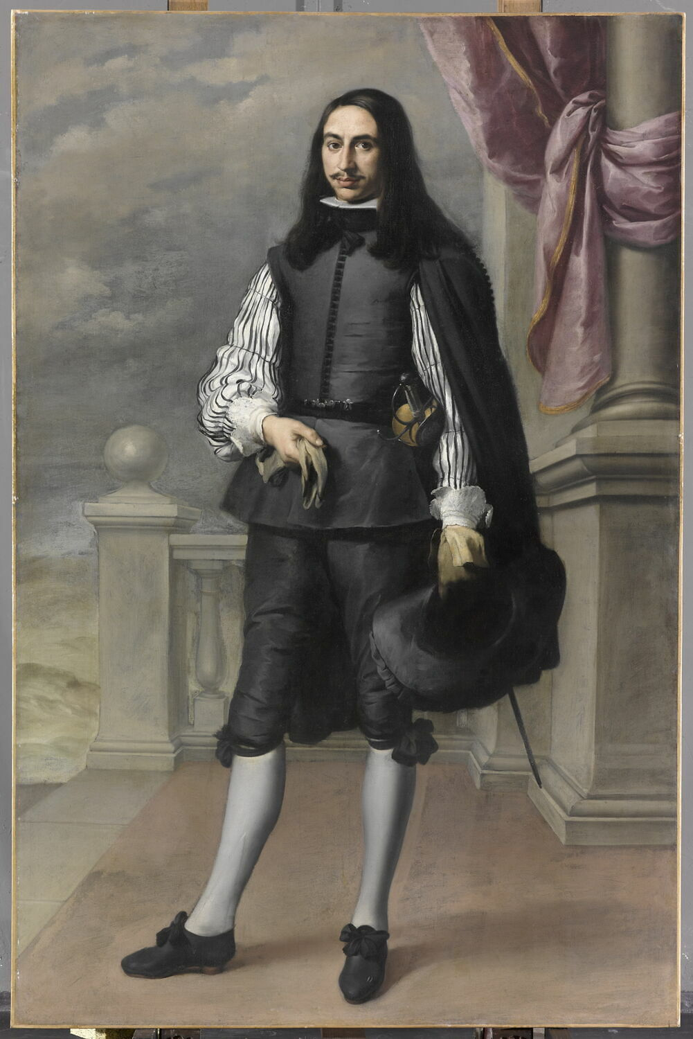 Portrait of Iñigo Melchior de Velasco, Duke of Frias